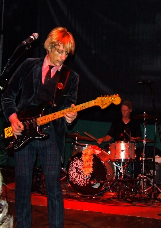 Crispian Mills of Kula Shaker